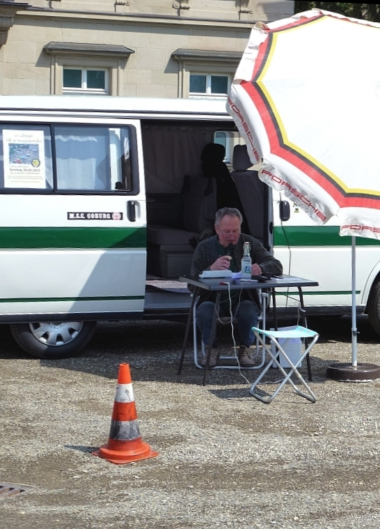 10. Old-timer meetings MSC Coburger 5th of May, 2013 - Hubertus Ernst with the announcement newly arriving Young-and old-timer